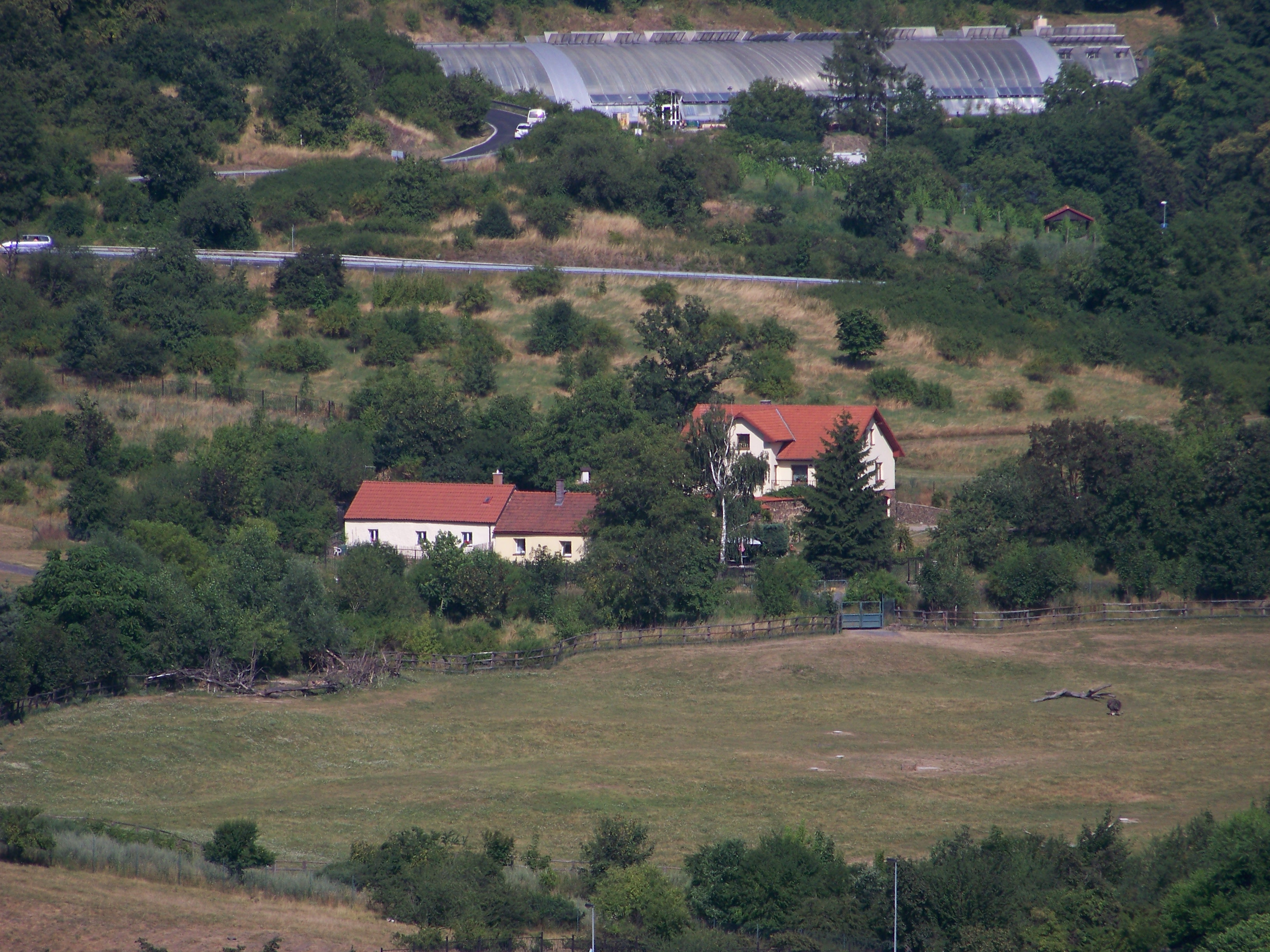 Prague-Troja, the Czech Republic. Hrachovka (K Bohnicím 59/3 and 75/3a), seen from Baba.